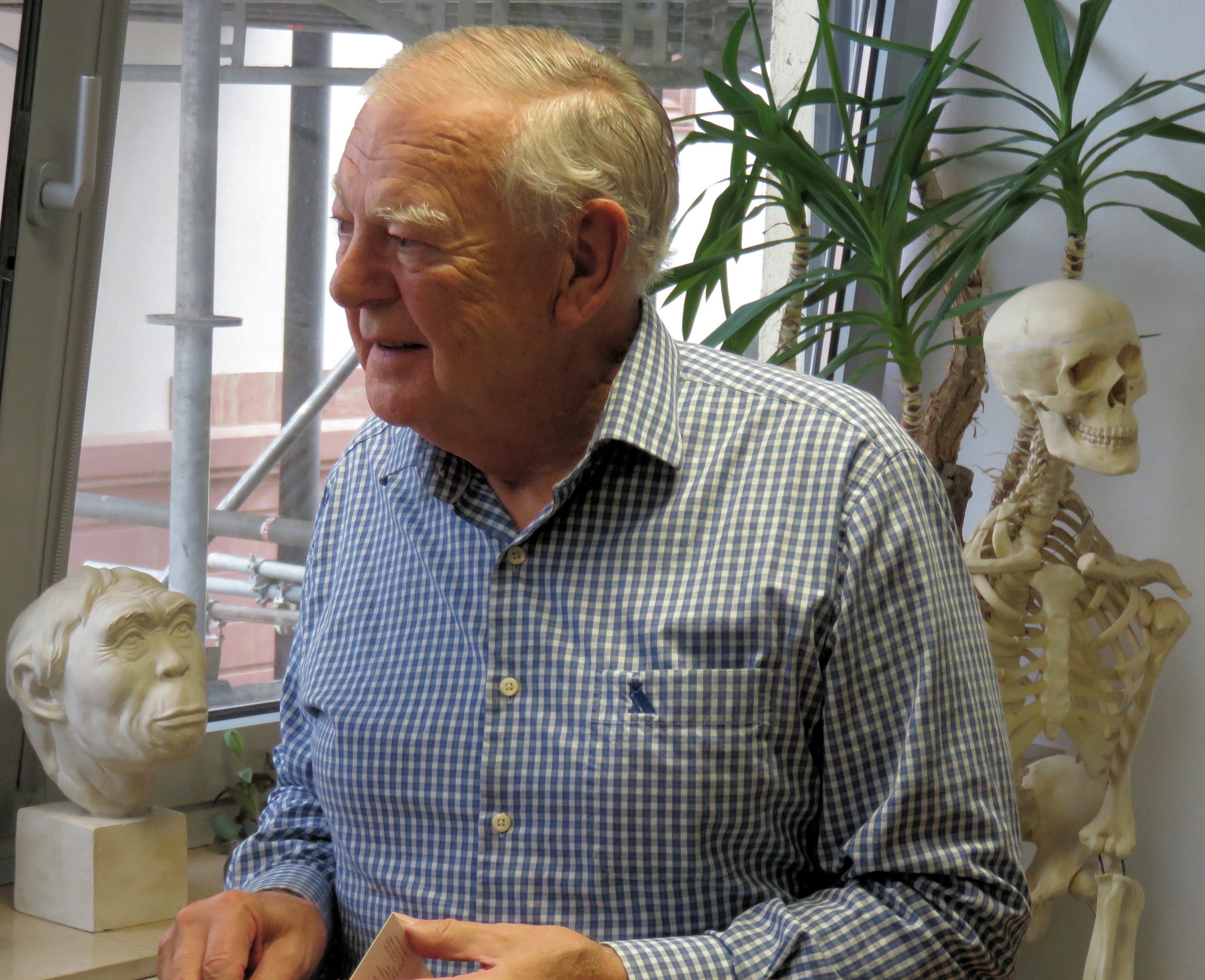 Prof. Donald Johanson, paleoanthropologist, well known for the discovery of Lucy